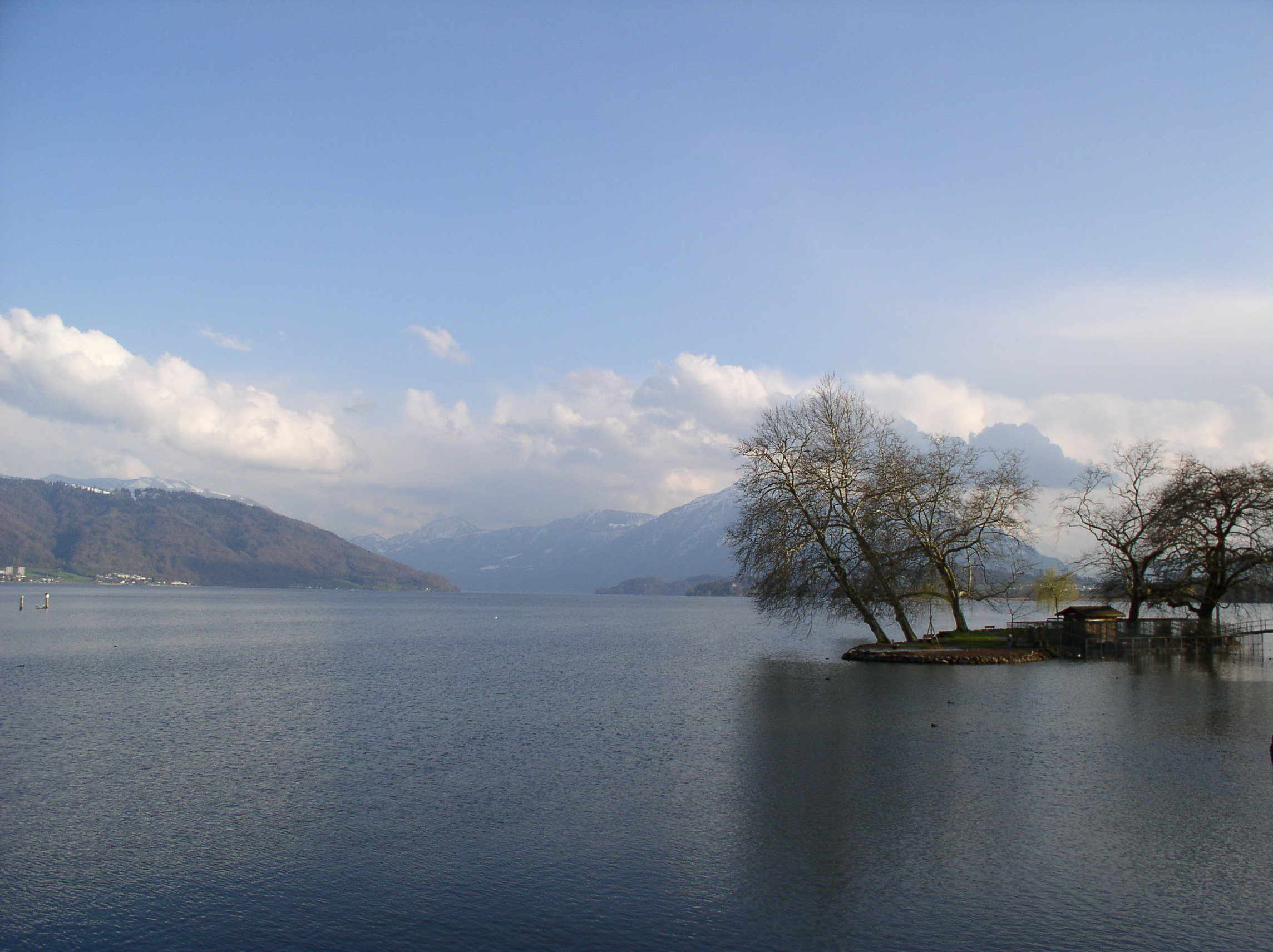 Description: Zugersee, fotografiert vom Villette in Cham aus Source: photo taken by me, April 2004 Photographer: Baikonur